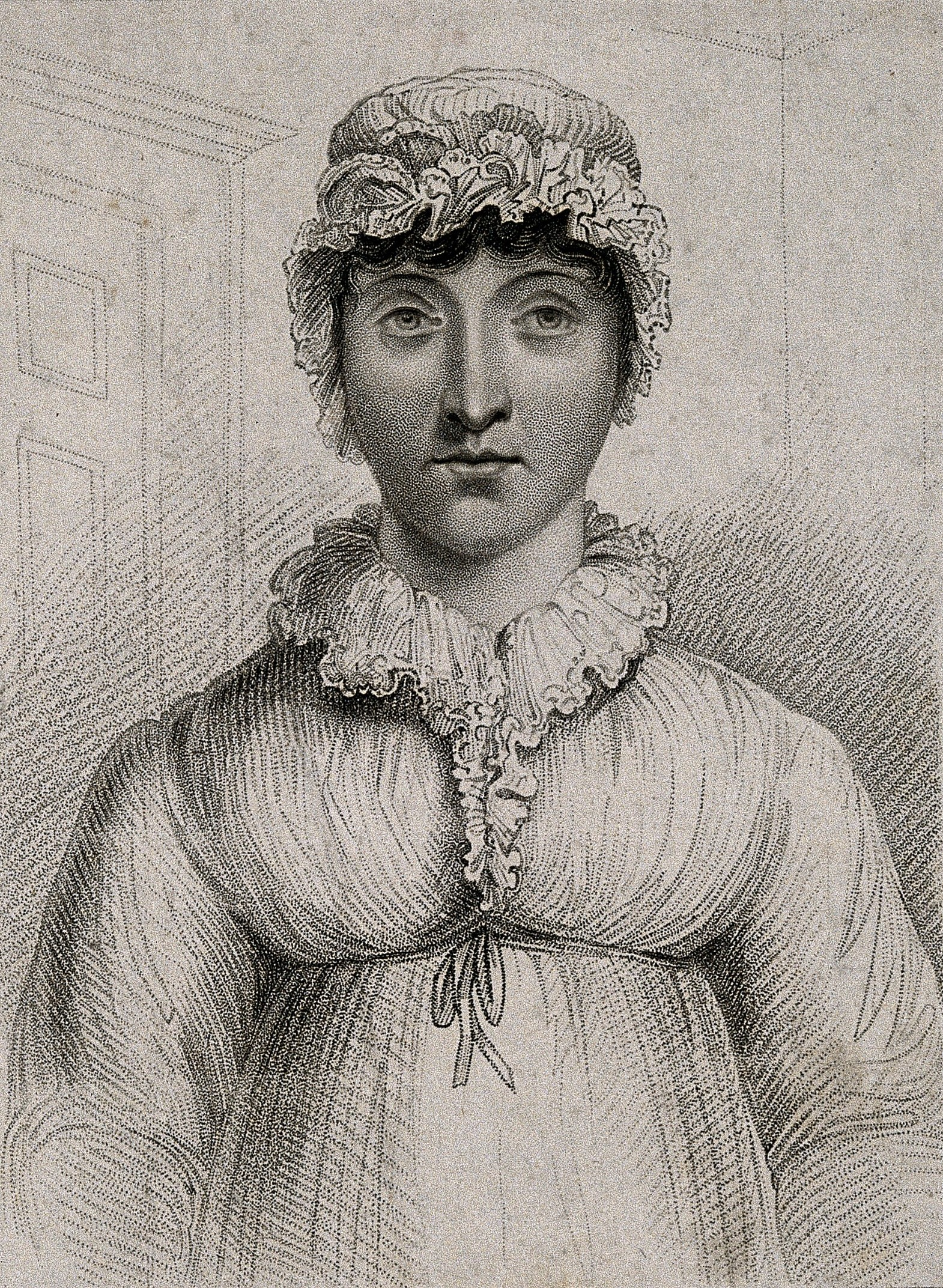 Margeret M'Avoy, blind but with remarkable perception. Stipple engraving by R. Cooper, 1821. Iconographic Collections Keywords: stipple prints; portrait prints; Robert Cooper; Margaret M'Avoy; Blindness; m'avoy, margaret, 1800-1820; Visual Perception